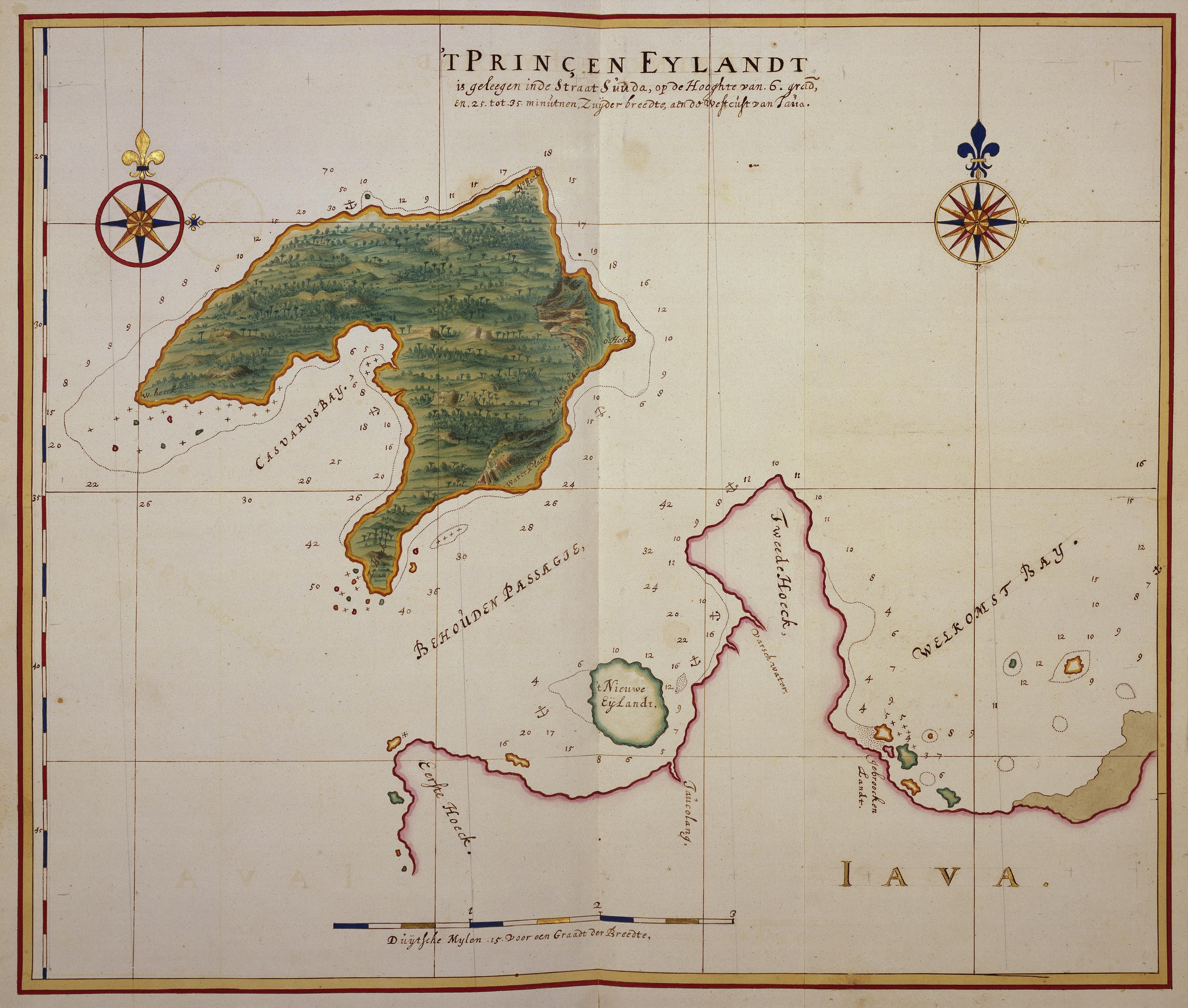 Old map of Prinseneiland, today Panaitan